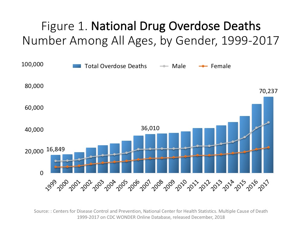 From source: "National Drug Overdose Deaths—Number Among All Ages, by Gender, 1999-2017. More than 70,200 Americans died from drug overdoses in 2017, including illicit drugs and prescription opioids—a 2-fold increase in a decade. The figure above is a bar and line graph showing the total number of U.S. overdose deaths involving all drugs from 1999 to 2017. Drug overdose deaths rose from 16,849 in 1999 to 70,237 in 2017. The bars are overlaid by lines showing the number of deaths by gender from 1999 to 2017 (Source: CDC WONDER)."